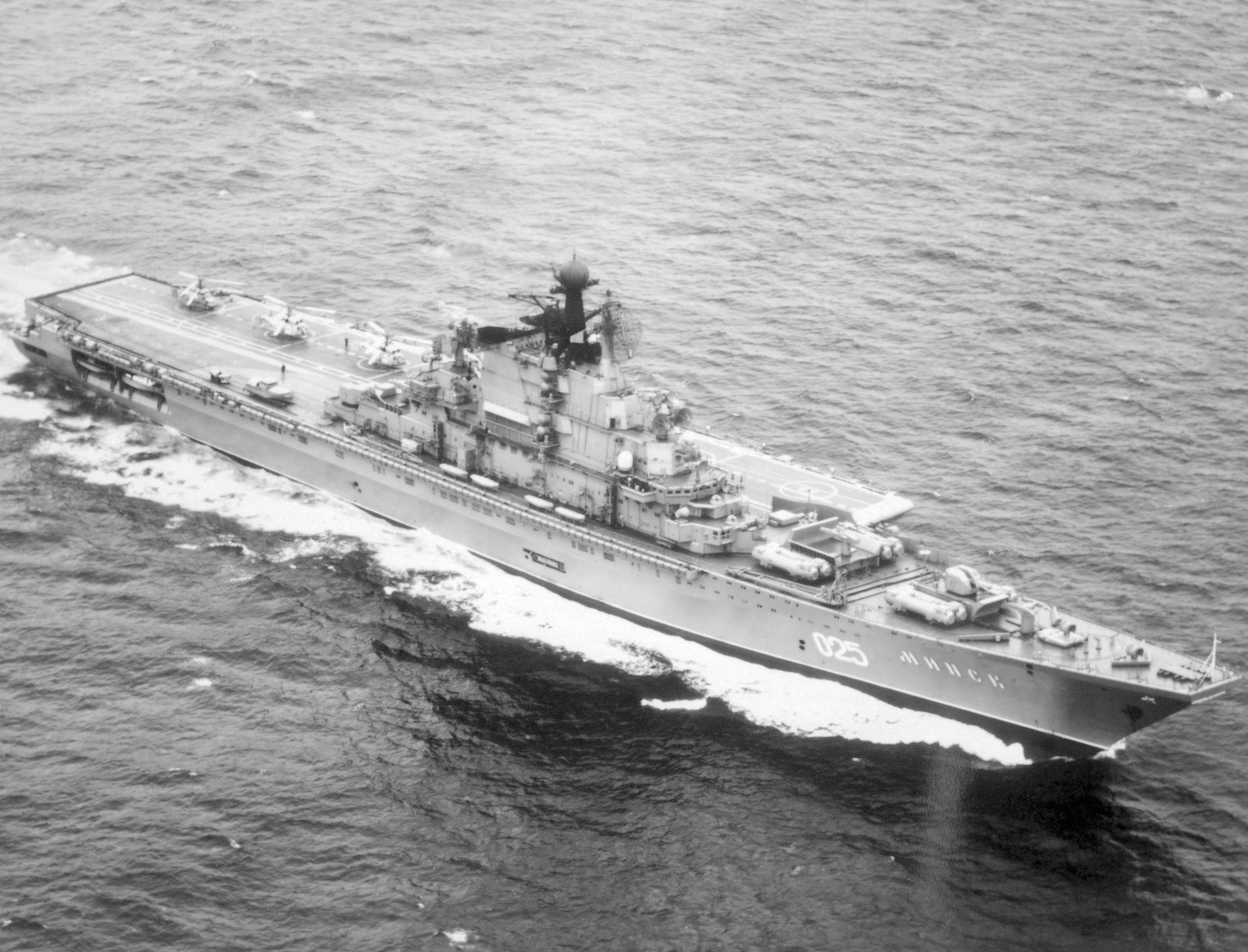 An aerial starboard bow view of the Soviet aircraft carrier MINSK (CVHG) underway.